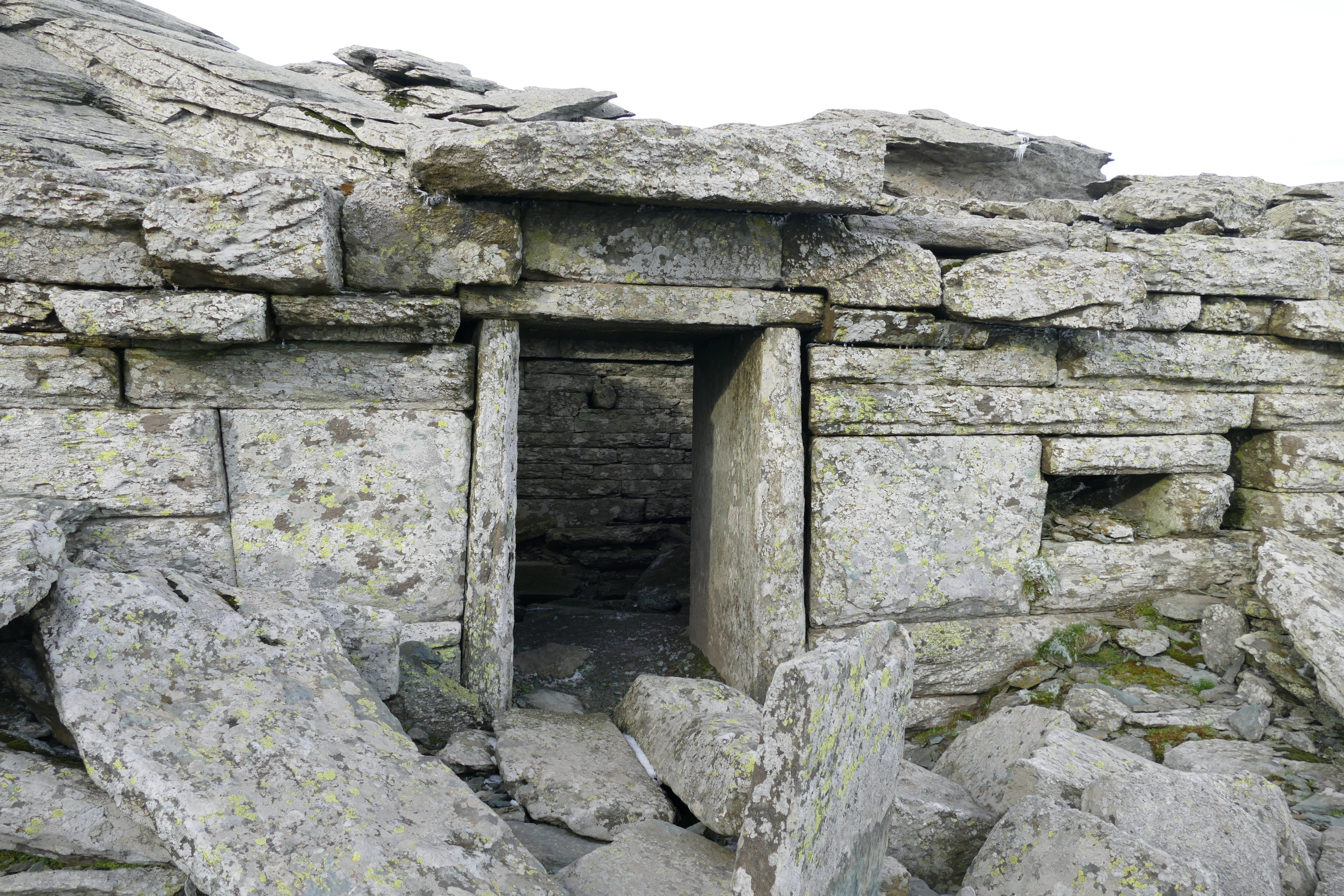 Ochi Dragon-house: entry